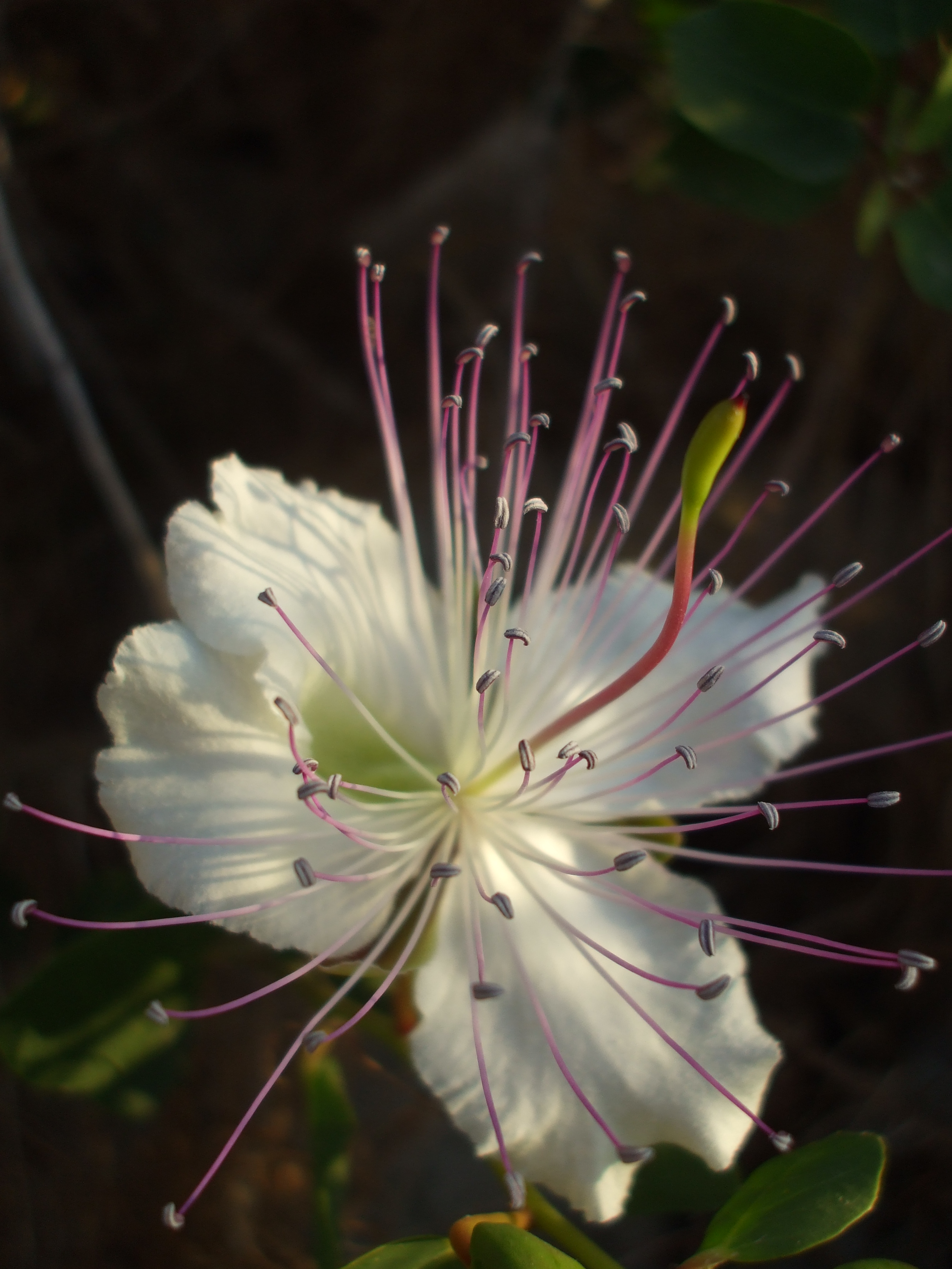 A beutiful species of Capparis spinosa photographed in San Ġwann, Malta